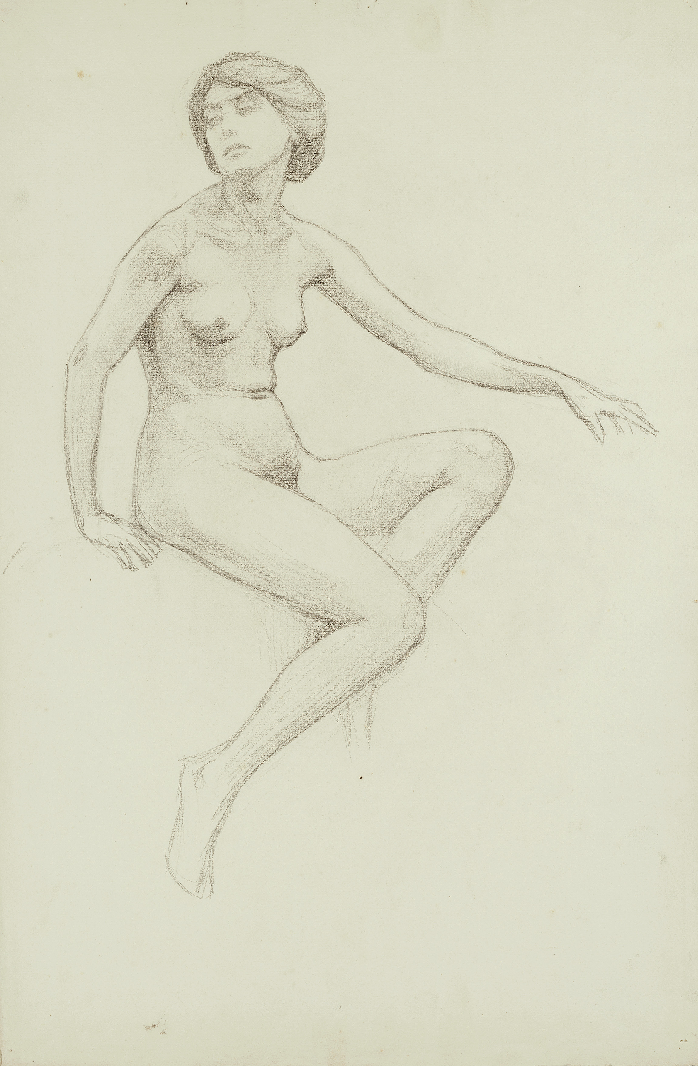 Sitzender weiblicher Akt von Sigmund Lipinsky. Kohle auf Papier, 48 x 32 cm